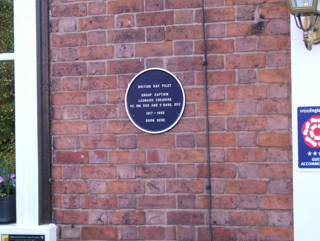 Leonard Cheshire VC. British RAF pilot G/Capt Geoffrey Leonard Cheshire VC, DM, DSO and Bars, DFC 1917-1992 Born Here. 675071